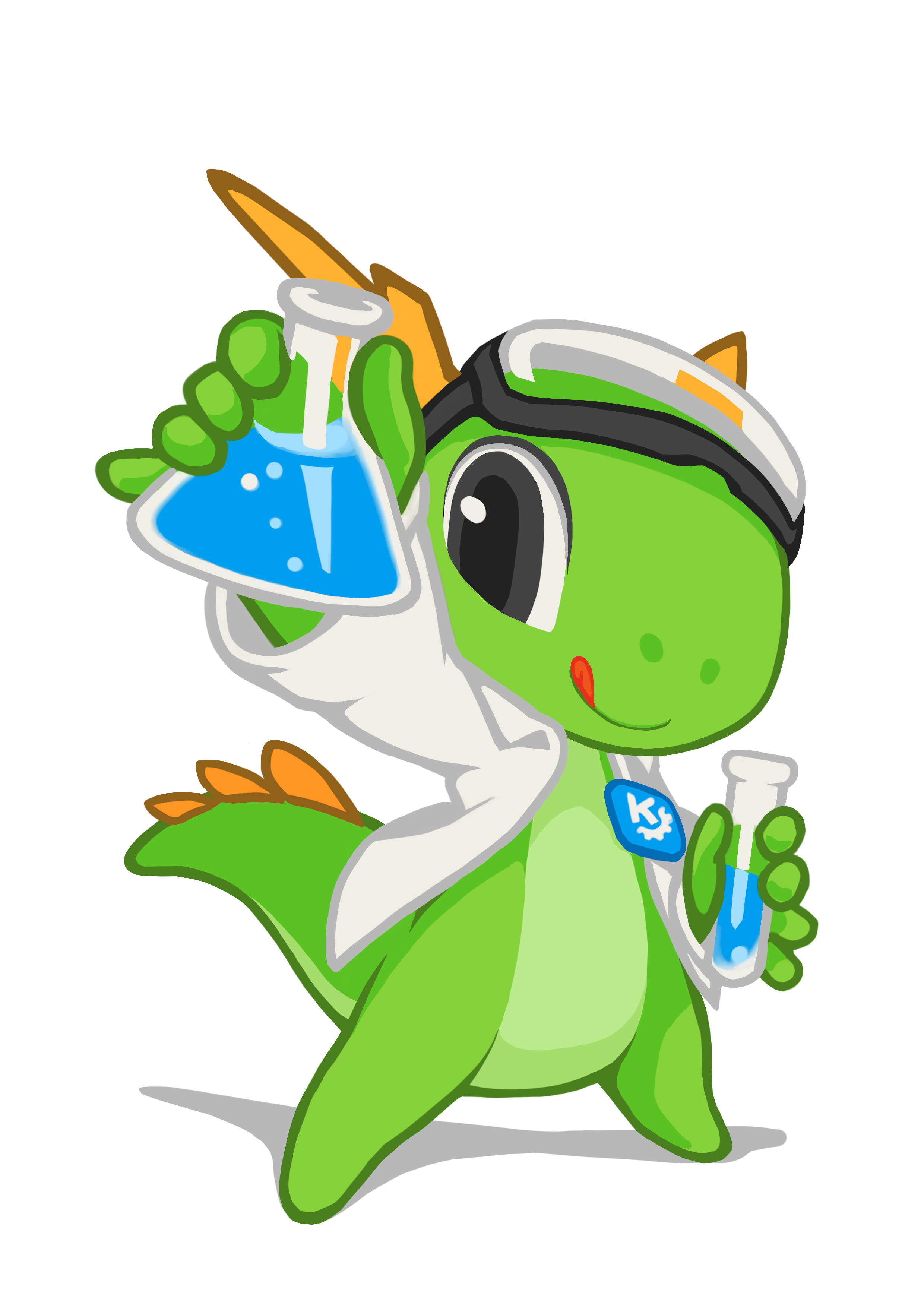 KDE mascot Konqi for science and experimental applications.